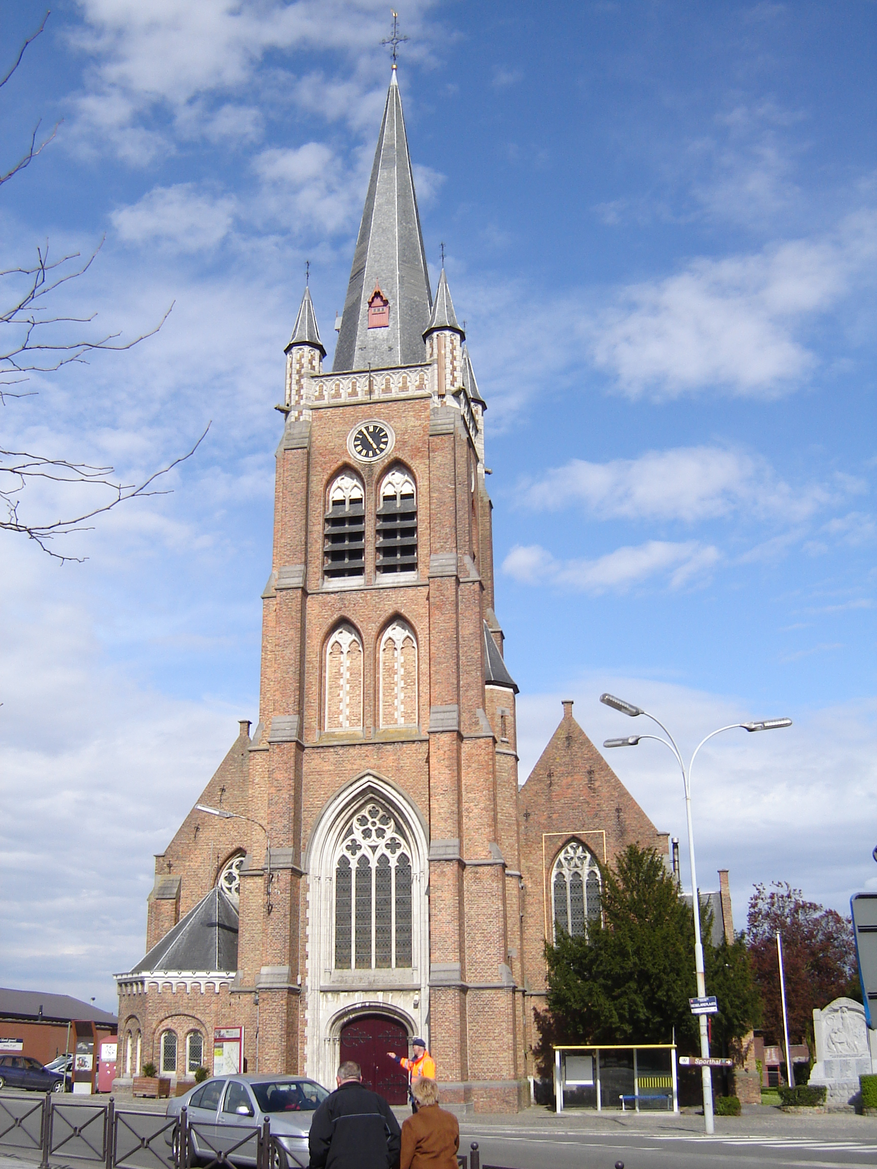 Church of Saint Martin in Beselare. Beselare, Zonnebeke, West Flanders, Belgium